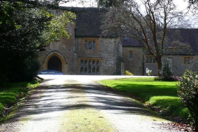 Driveway to Coker Court